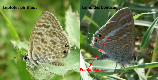 Potographies taken near Tàrrega, Lleida, Catalonia.